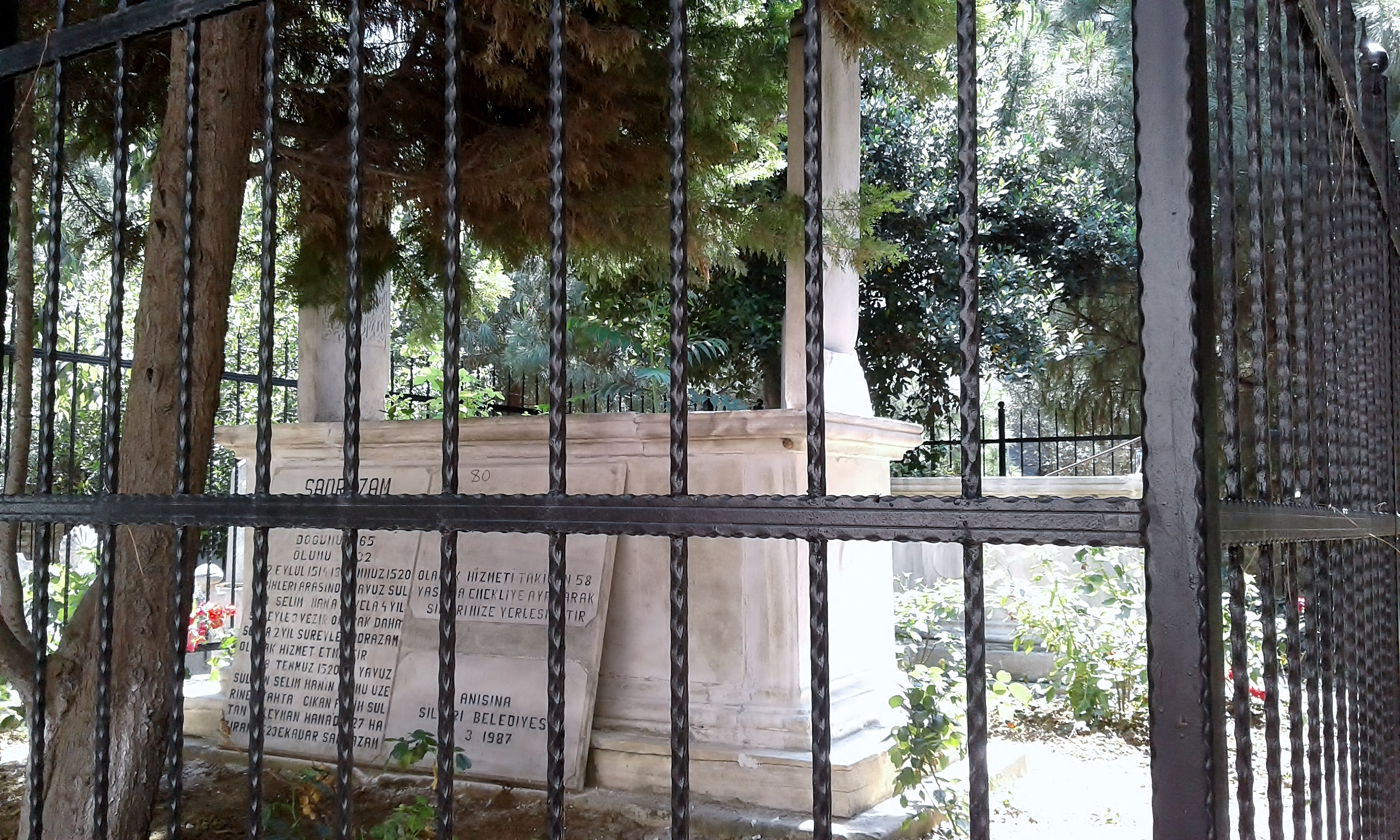 Piri Mehmet Pasha Mosque in Silivri, Istanbul